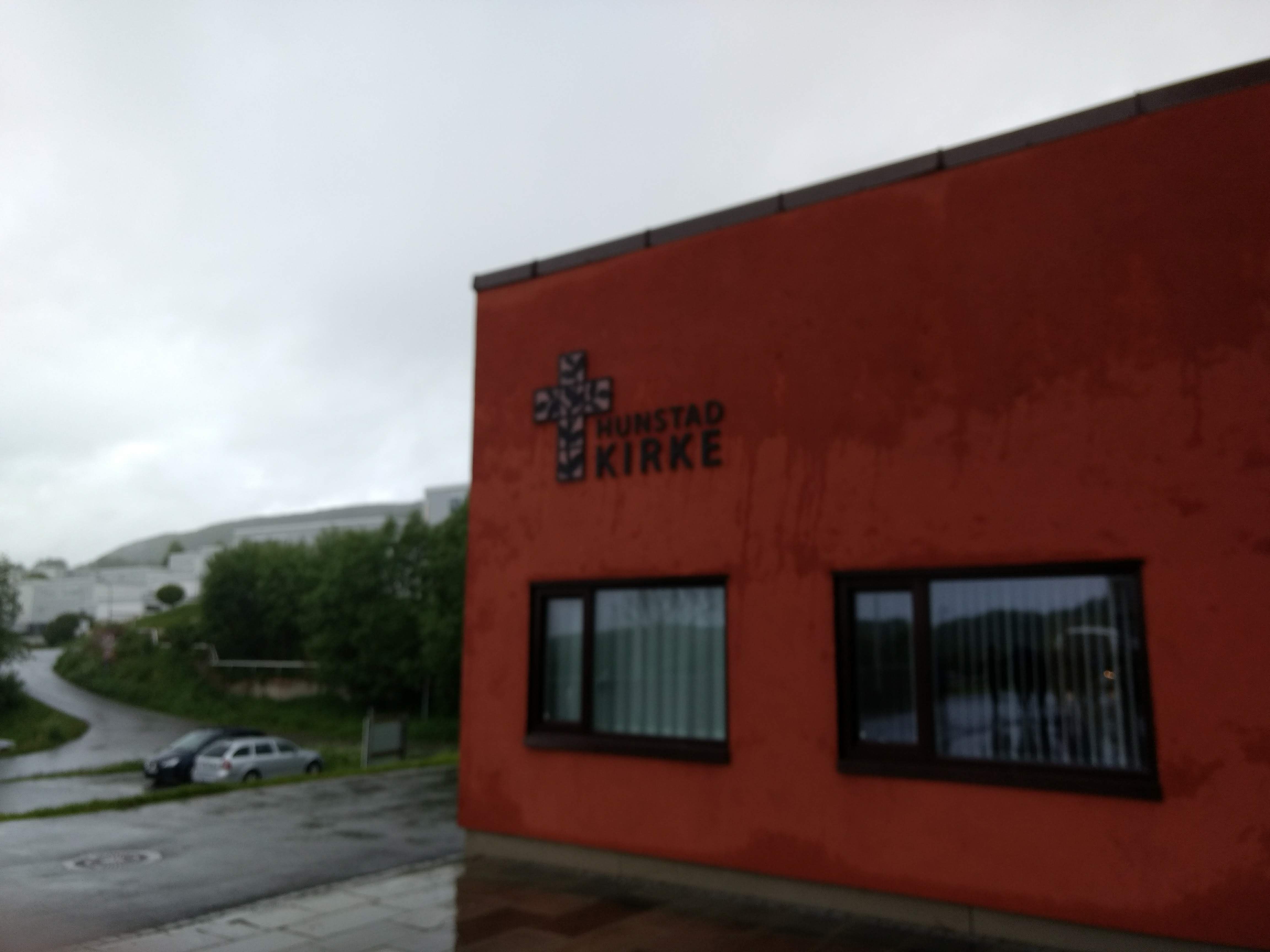 At entrance to Hunstad church, Bodø